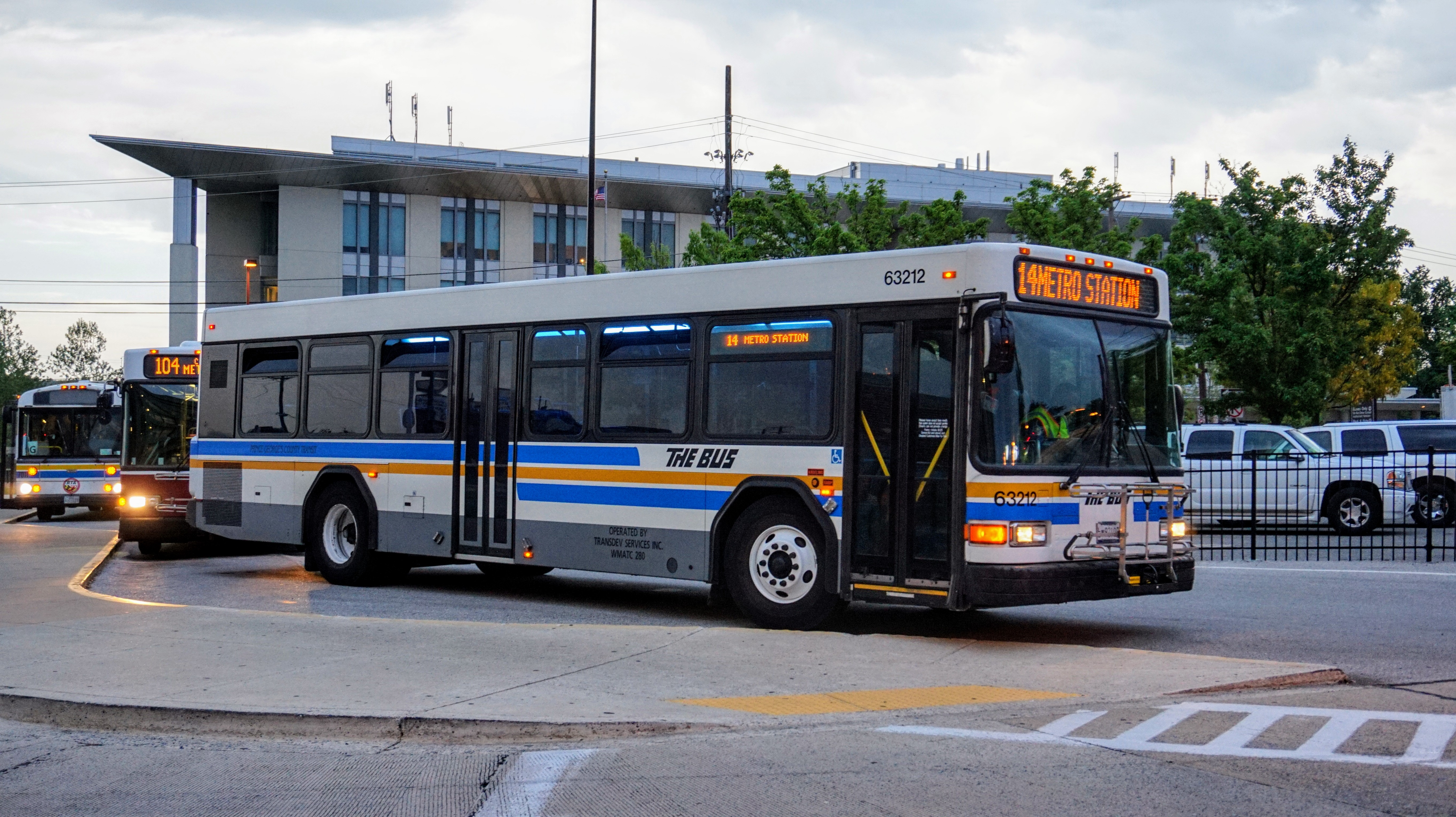 College Park UM Station